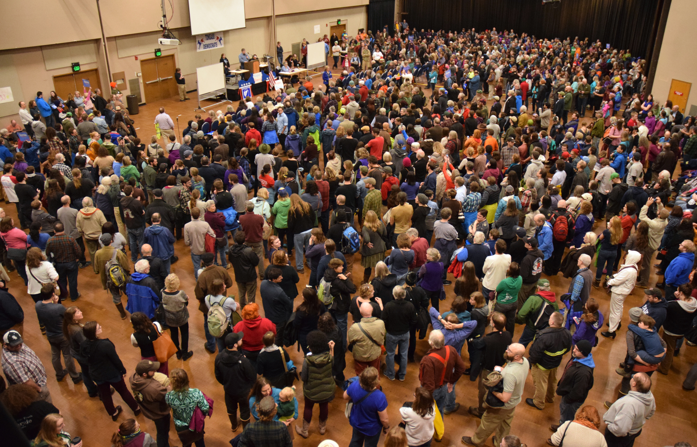 Voters fill Centennial Hall's Sheffield Ballroom during the Juneau Democratic Caucus on Saturday, March 26, 2016 as Rep. Sam Kito III, D-Juneau, speaks from the podium as the chairman of the event. (James Brooks photo)